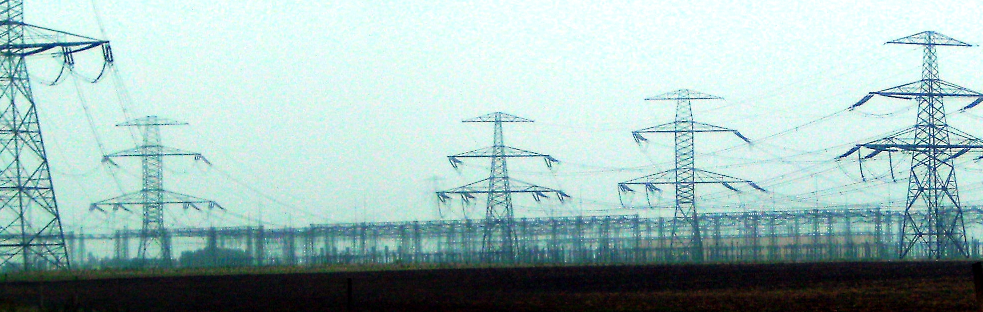 Wolmirstedt substation seen from Northeast